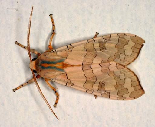 Banded Tussock Moth, Halysidota tessellaris, adult (imago), Location: Durham, North Carolina, United States